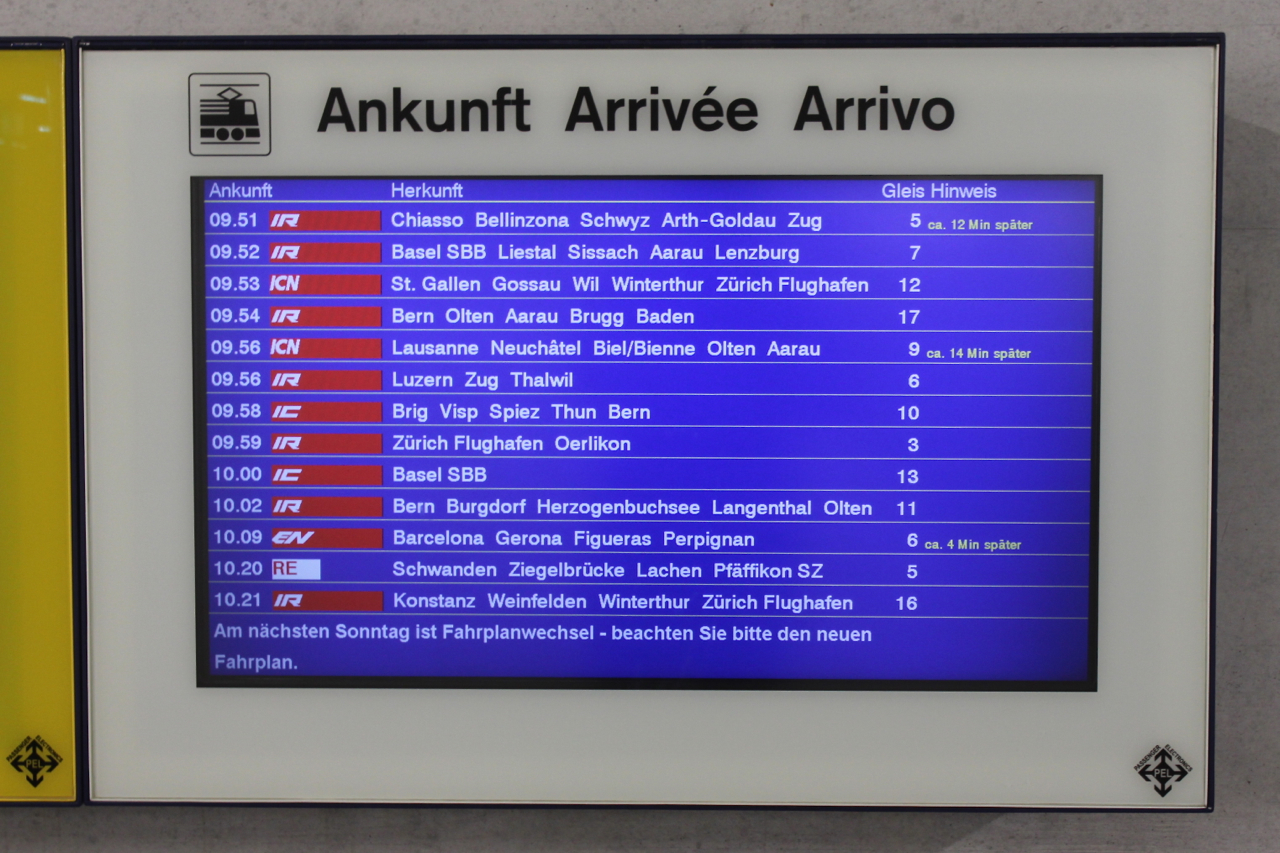 Arrivals LCD display at Zürich HB (also displaying EuroNight 273 "Pau Casals" from Barcelona).